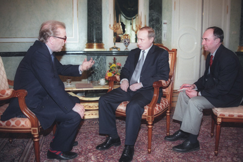 THE KREMLIN, MOSCOW. Vladimir Putin's interview to BBC journalist David Frost.